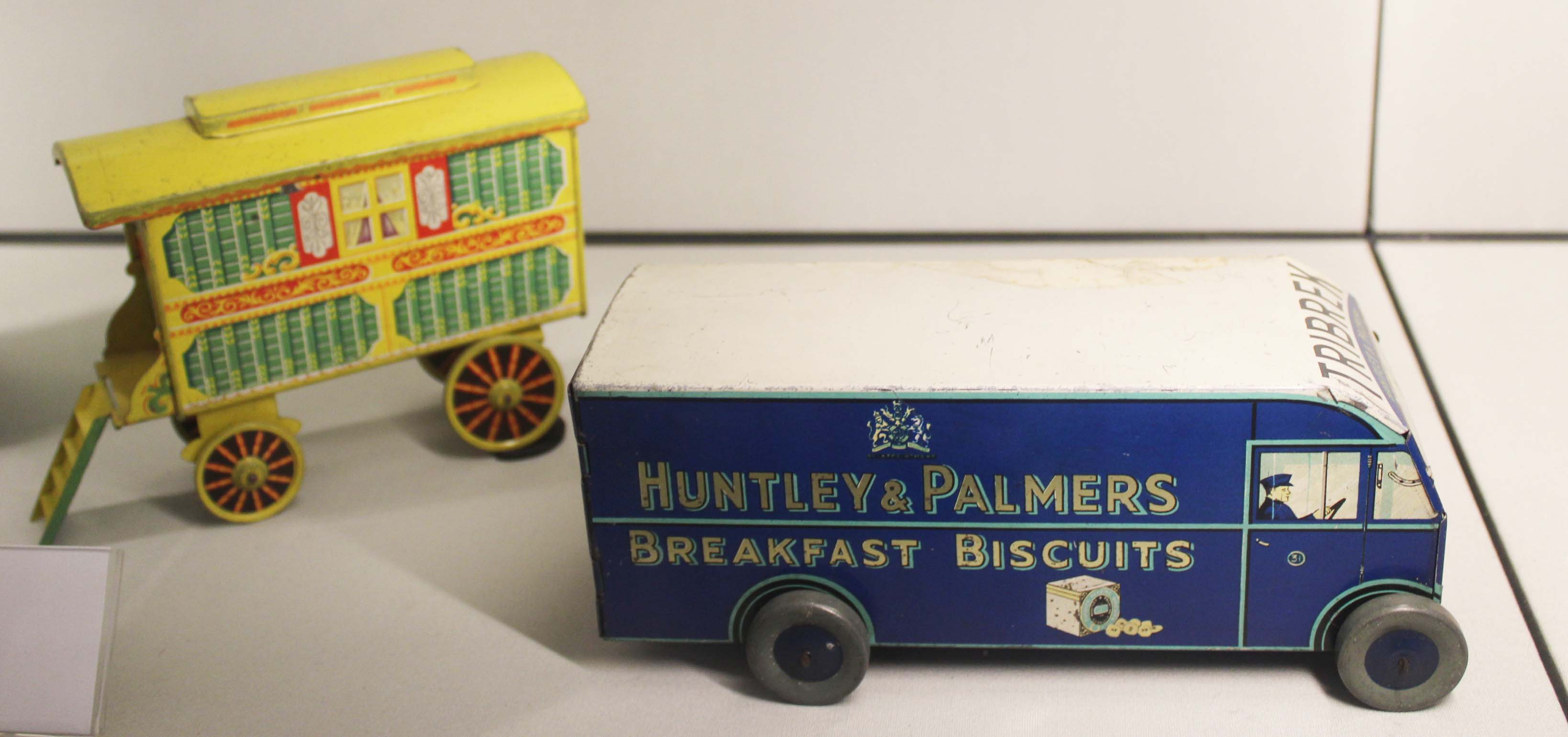 Novelty biscuit tins (c1937) made in Reading (England) displayed in Reading Museum